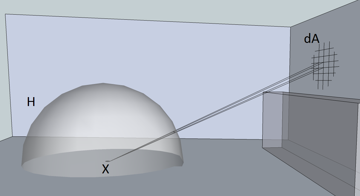 Rendering equation in dA form.